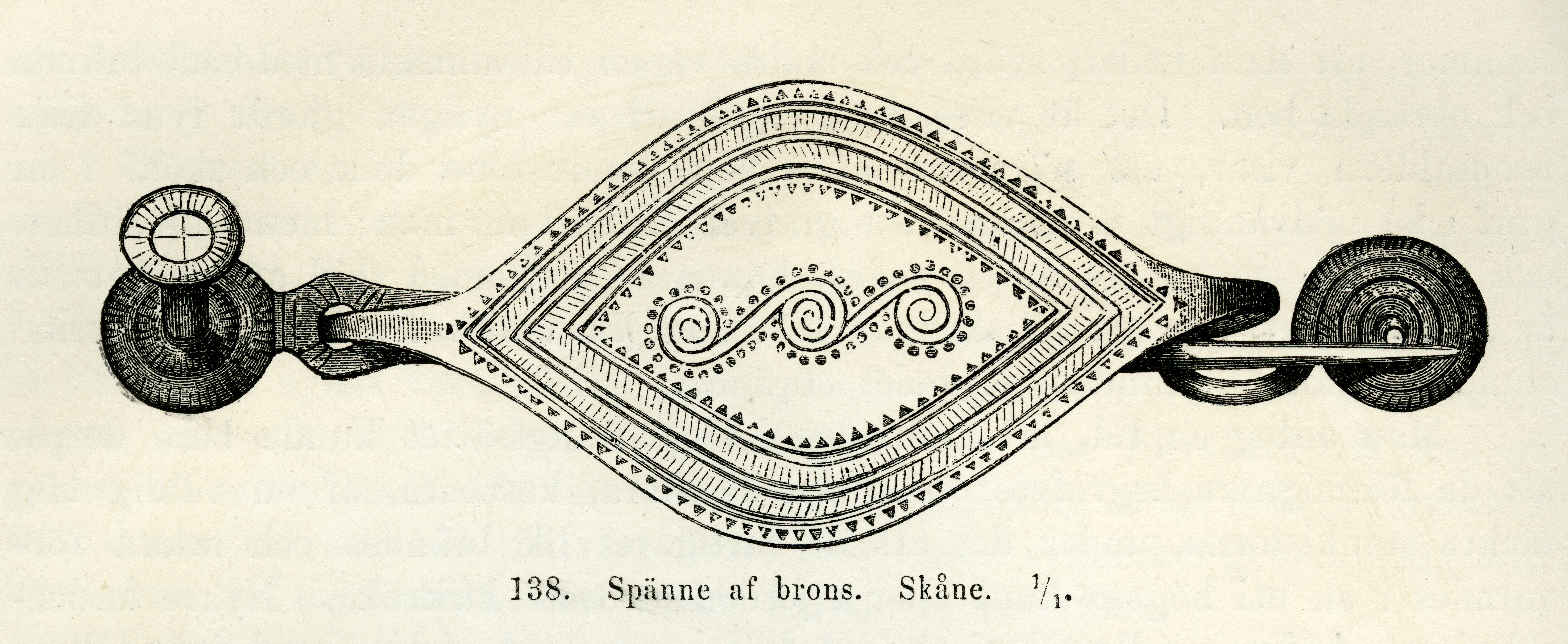 Bronze Age fibula from Skåne, Sweden.